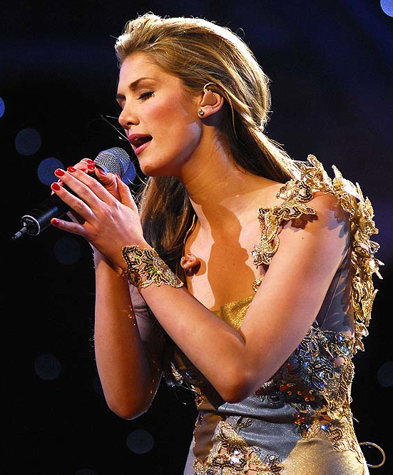 Delta Goodrem in concert.